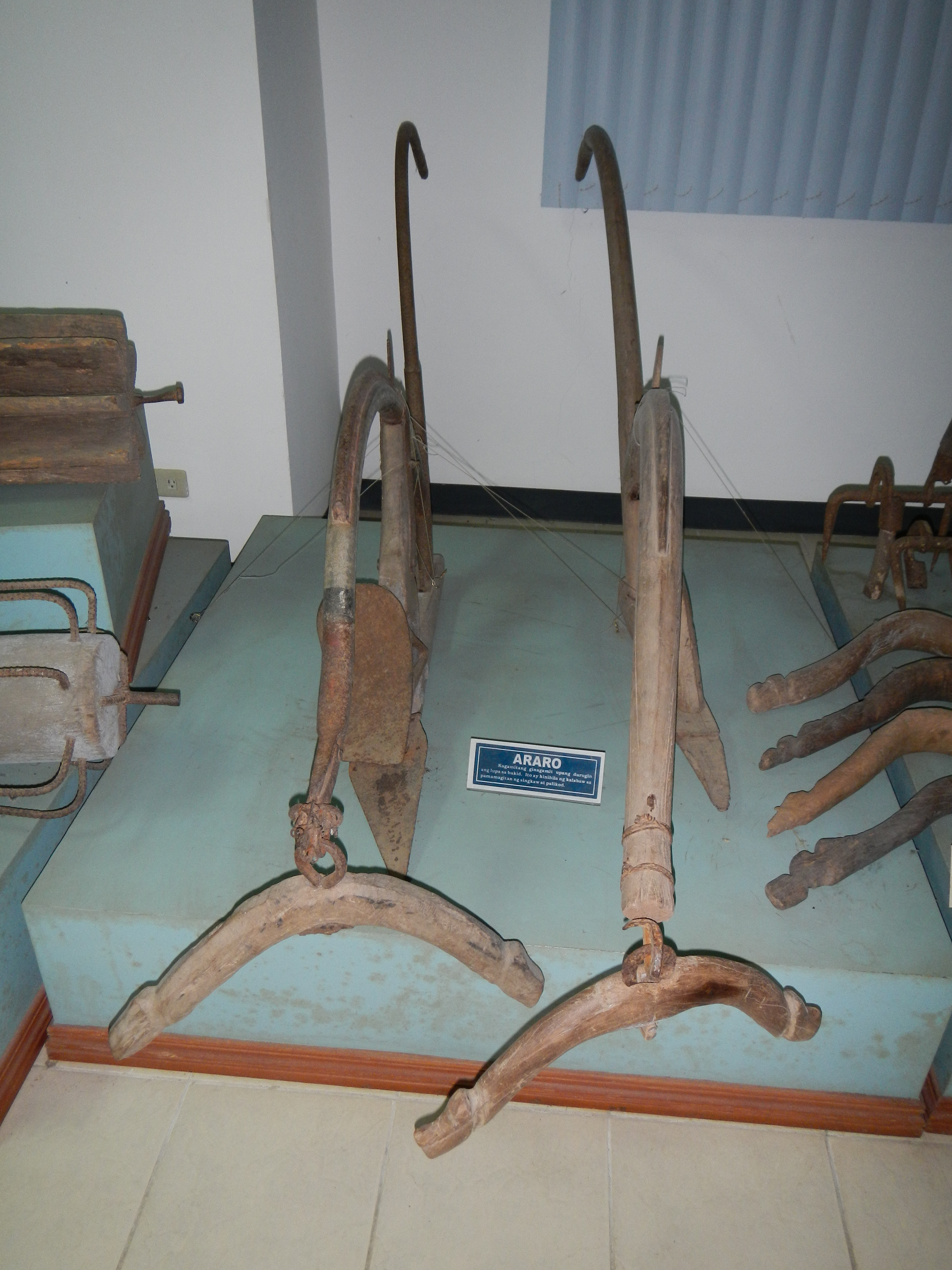 Araro[1]